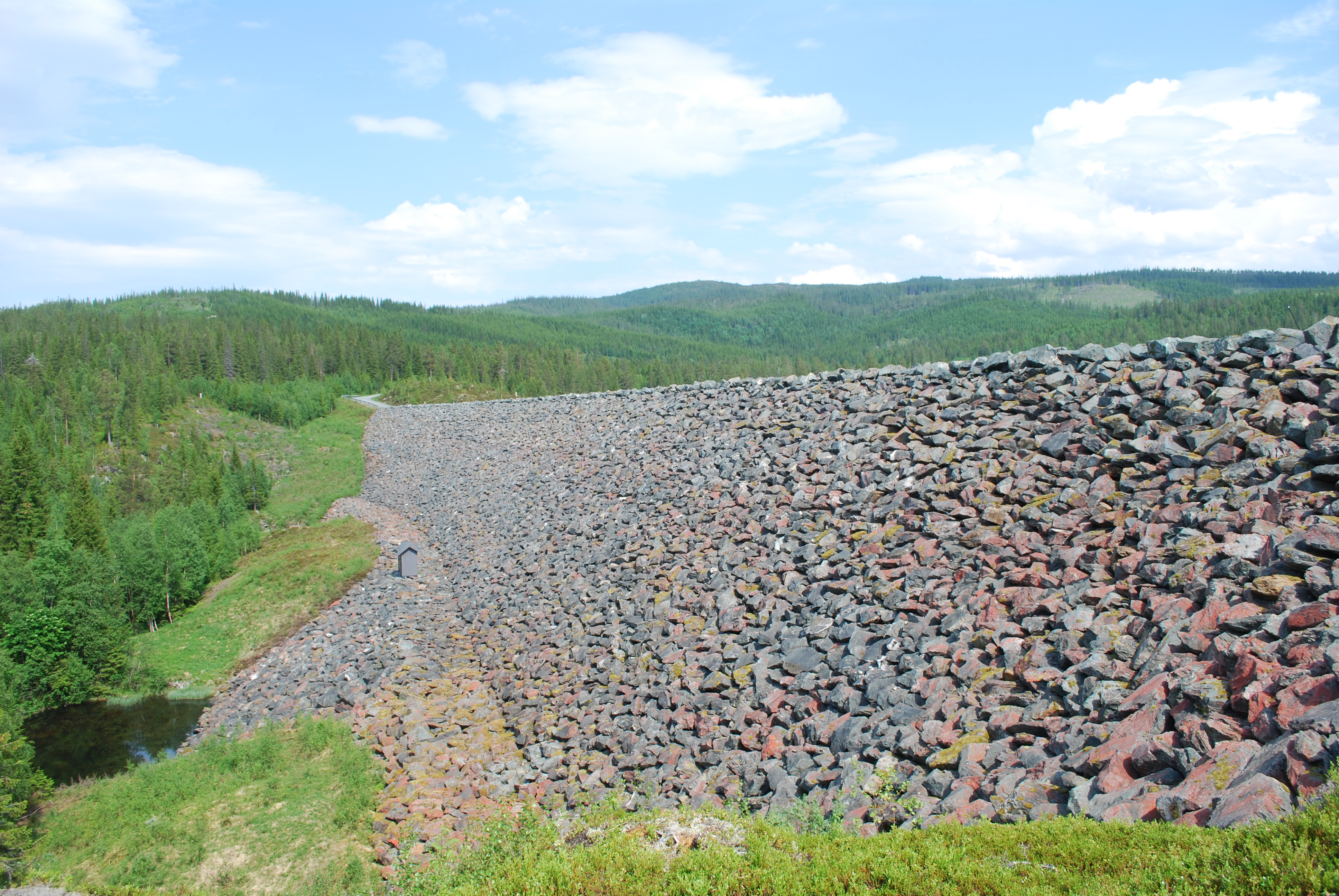 Dam for Tevla hydroelectric power plant in Meråker, Nord-Trøndelag, Norway.